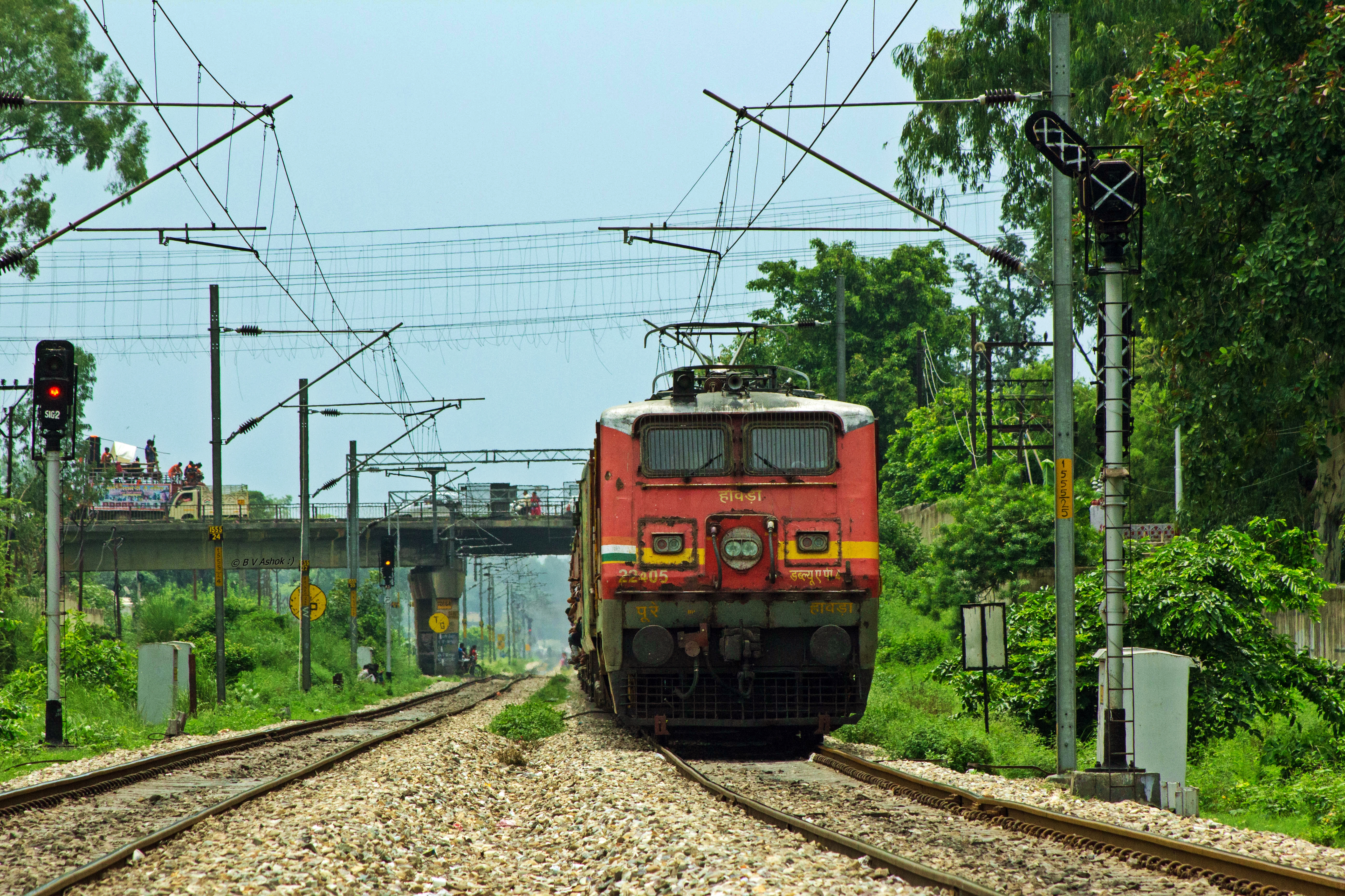 HWH WAP-4 22405 is all set to skip Roorkee with 12357 Kolkata - Amritsar Durgiana Express...